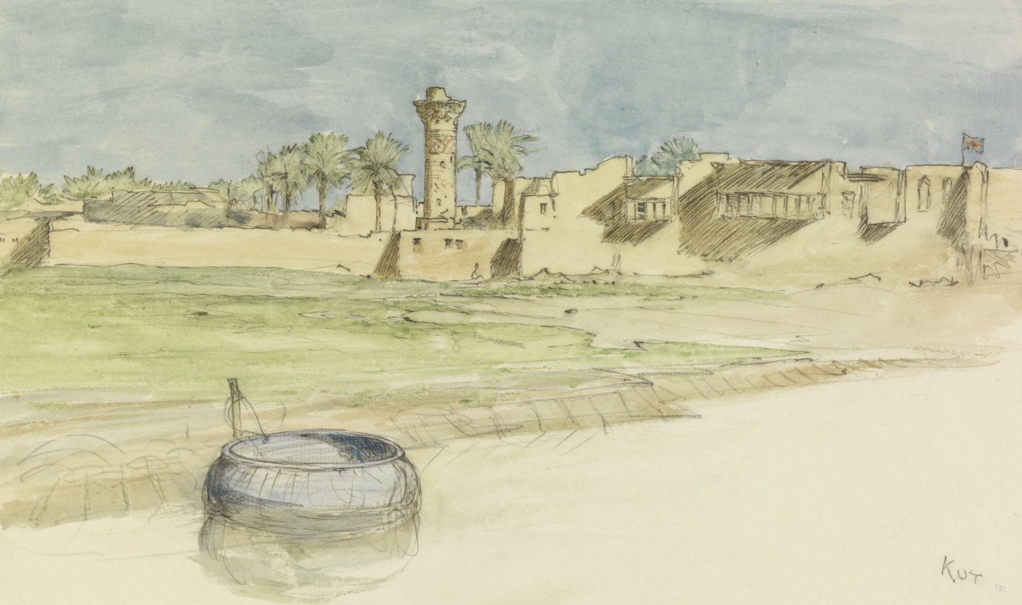 Kut. Showing the Ruined Minaret image: a view across part of Kut, with some water of the Tigris river in the immediate foreground. Further back are a series of buildings, with a bomb damaged minaret in the centre and a British Union Jack flying from a flagpole to the right.